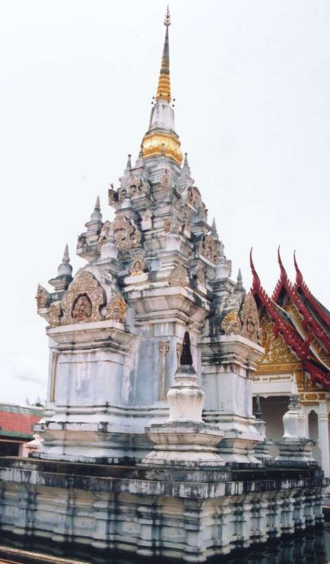 Central chedi of Wat Phra Borom That Chaiya (วัดพระบรมธาตุไชยาราชวรวิหาร) in Srivijaya style in Chaiya, Surat Thani province, Thailand